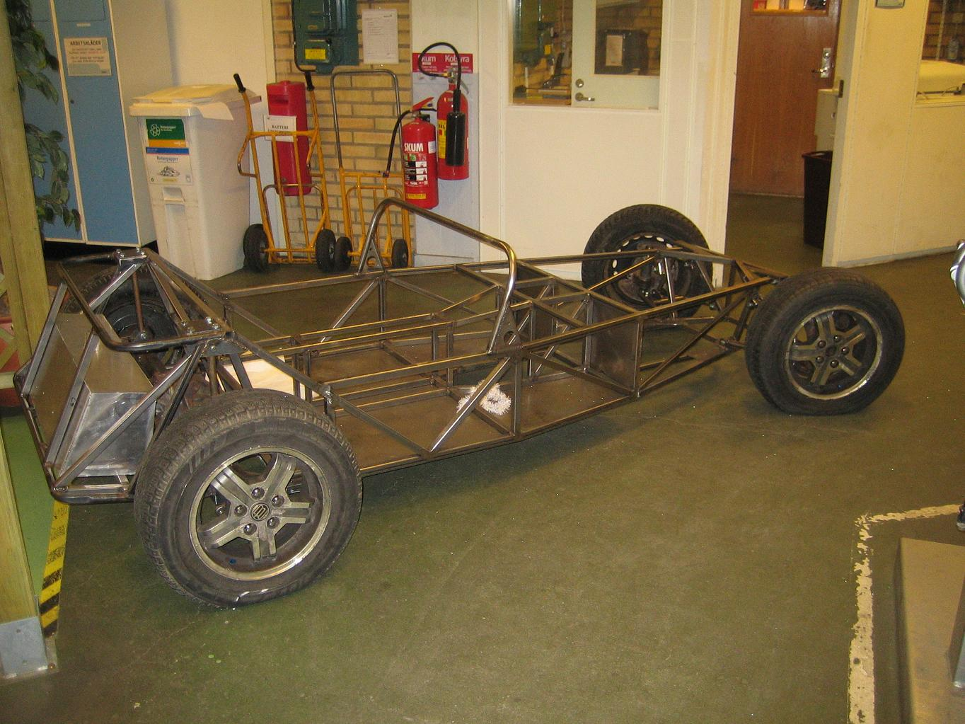 Locost spaceframe (McSorley version) with minor modifications. It is being built in Sweden as a school project. Based on Volvo parts and designed for a Volvo V8.